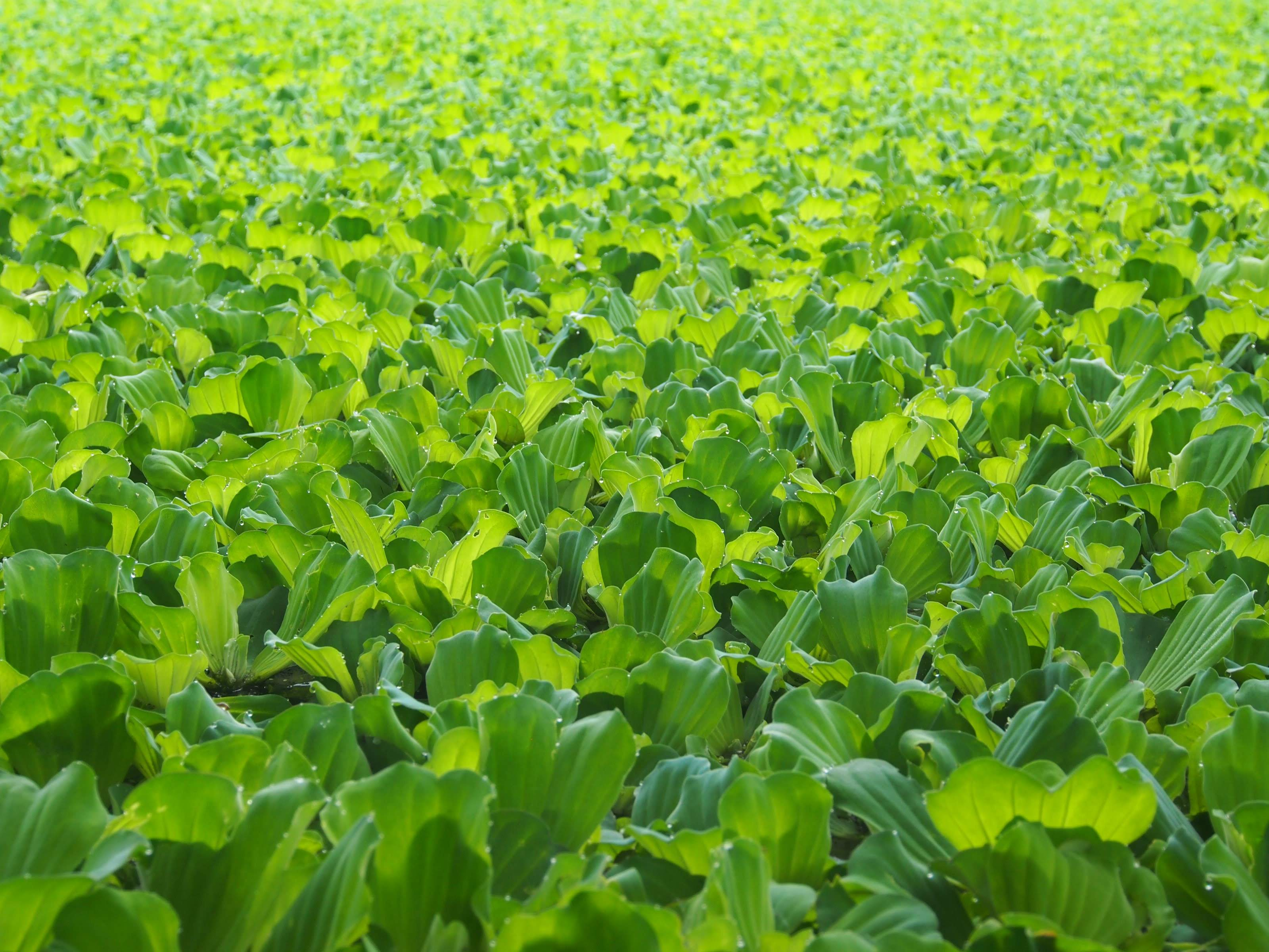 Pistia spread over a field in Karalakam, Alappuzha